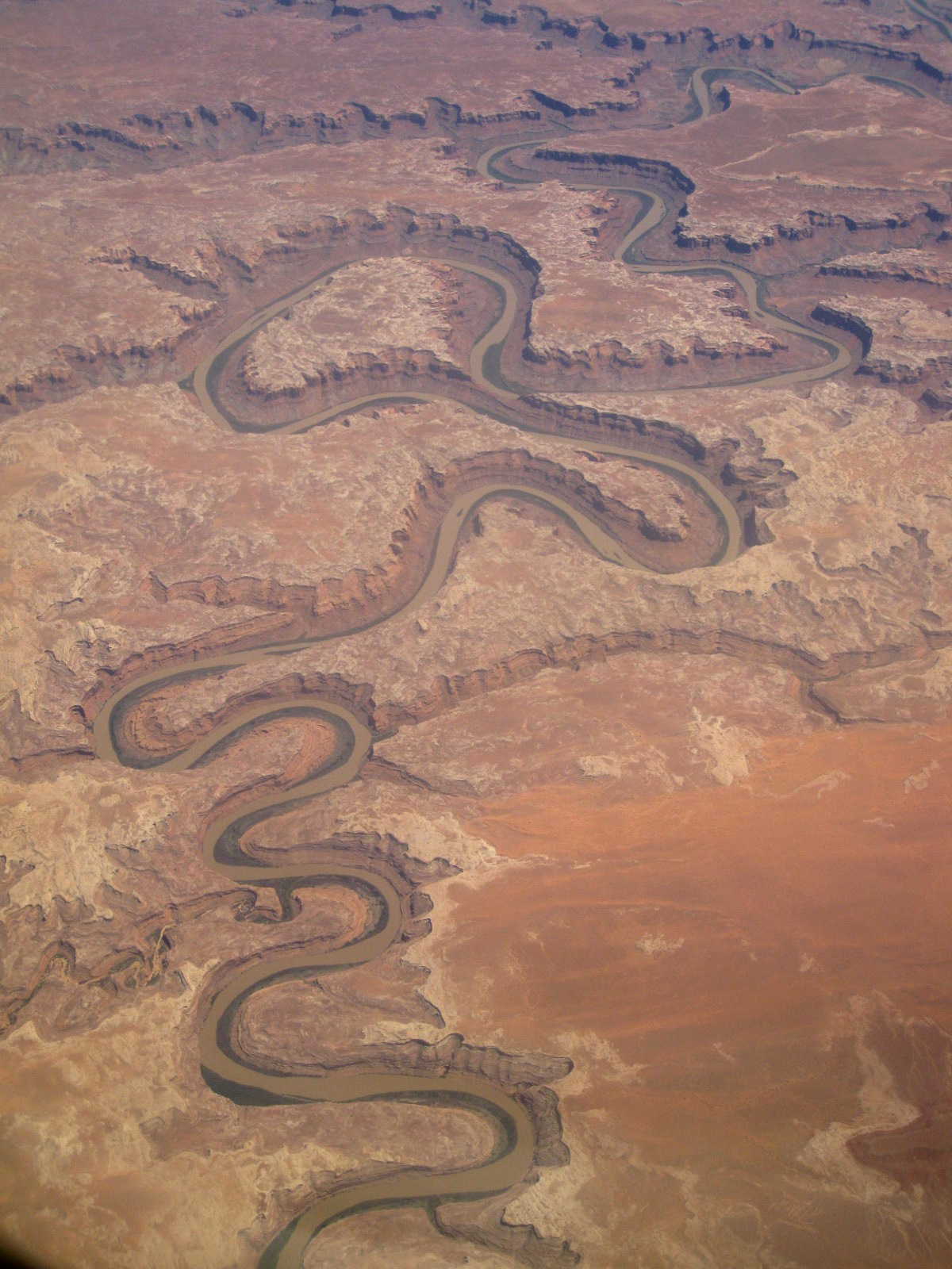 Green River, Utah, U.S.A., as seen from the air.